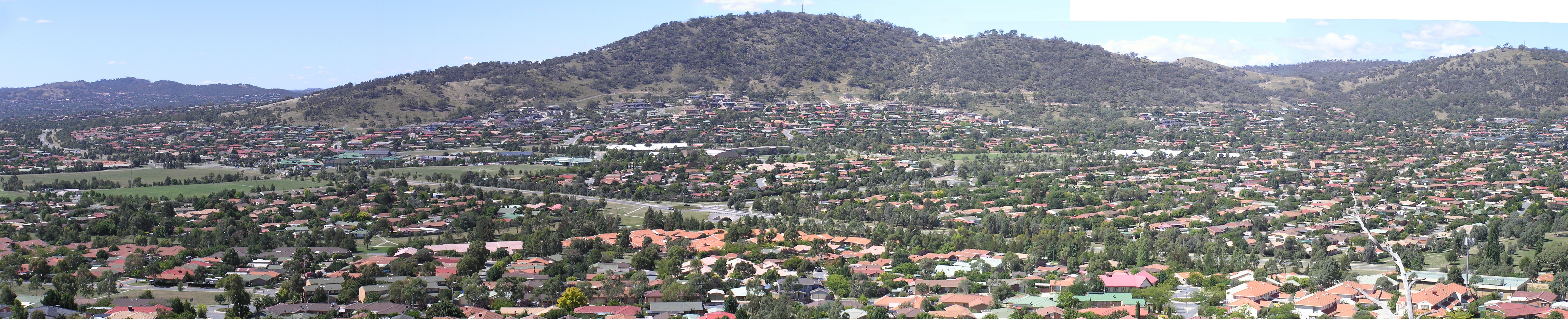 panorama of Conder from Gordon, phtos stitched together